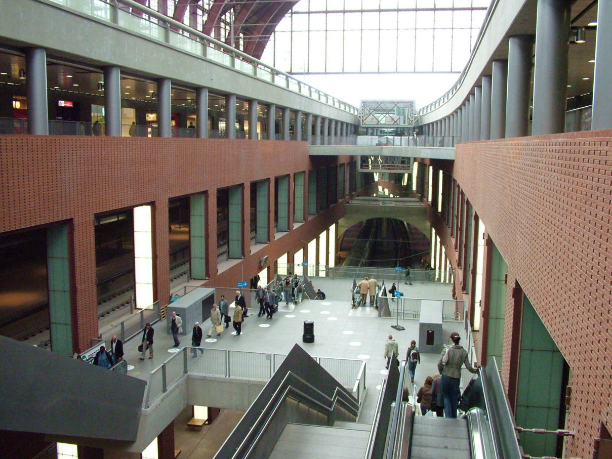 Antwerpen Central Station, going to the lower rails